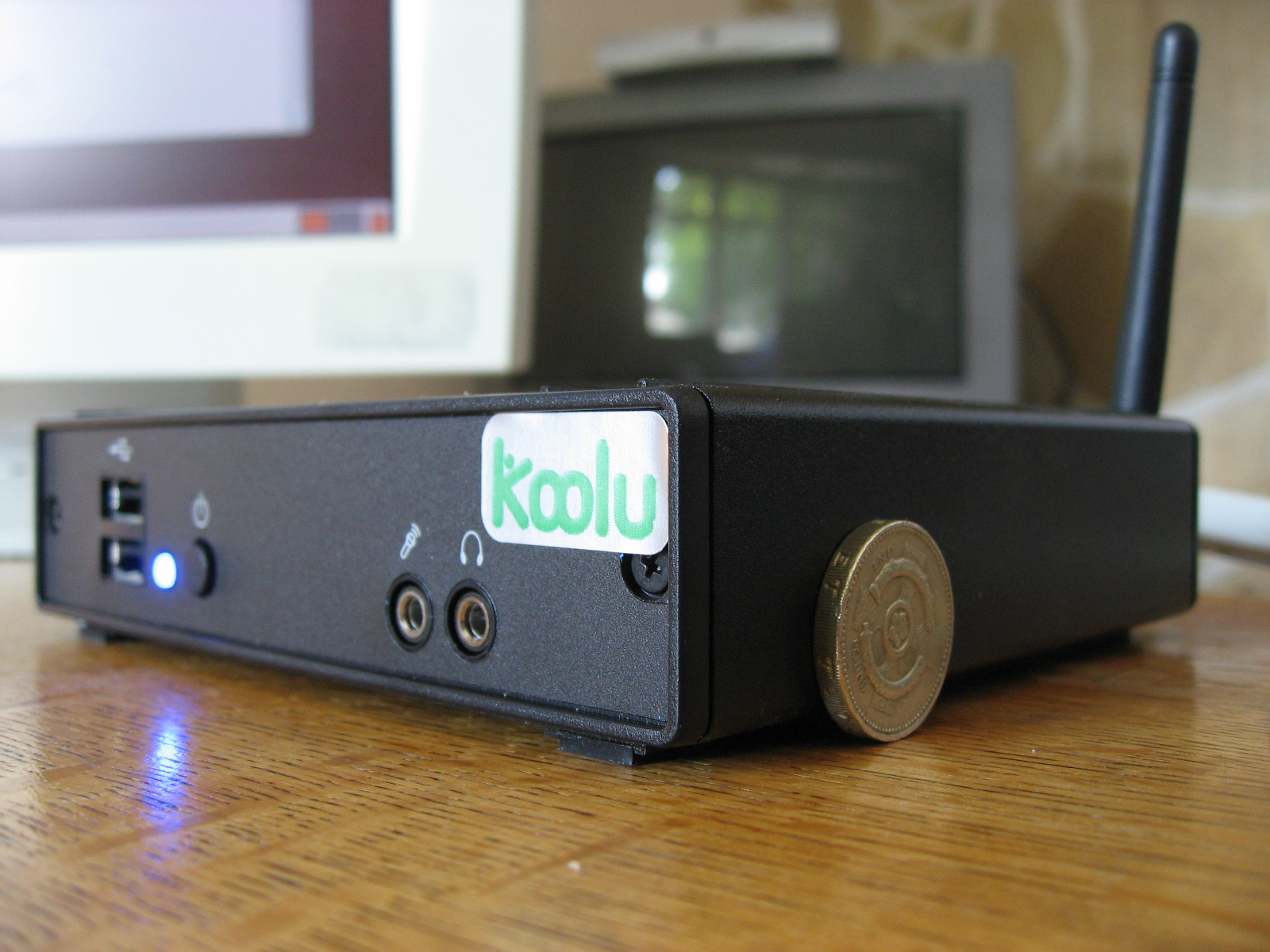 I am hoping to combine cheap Koolu hardware with